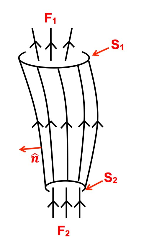 magnetic flux tube